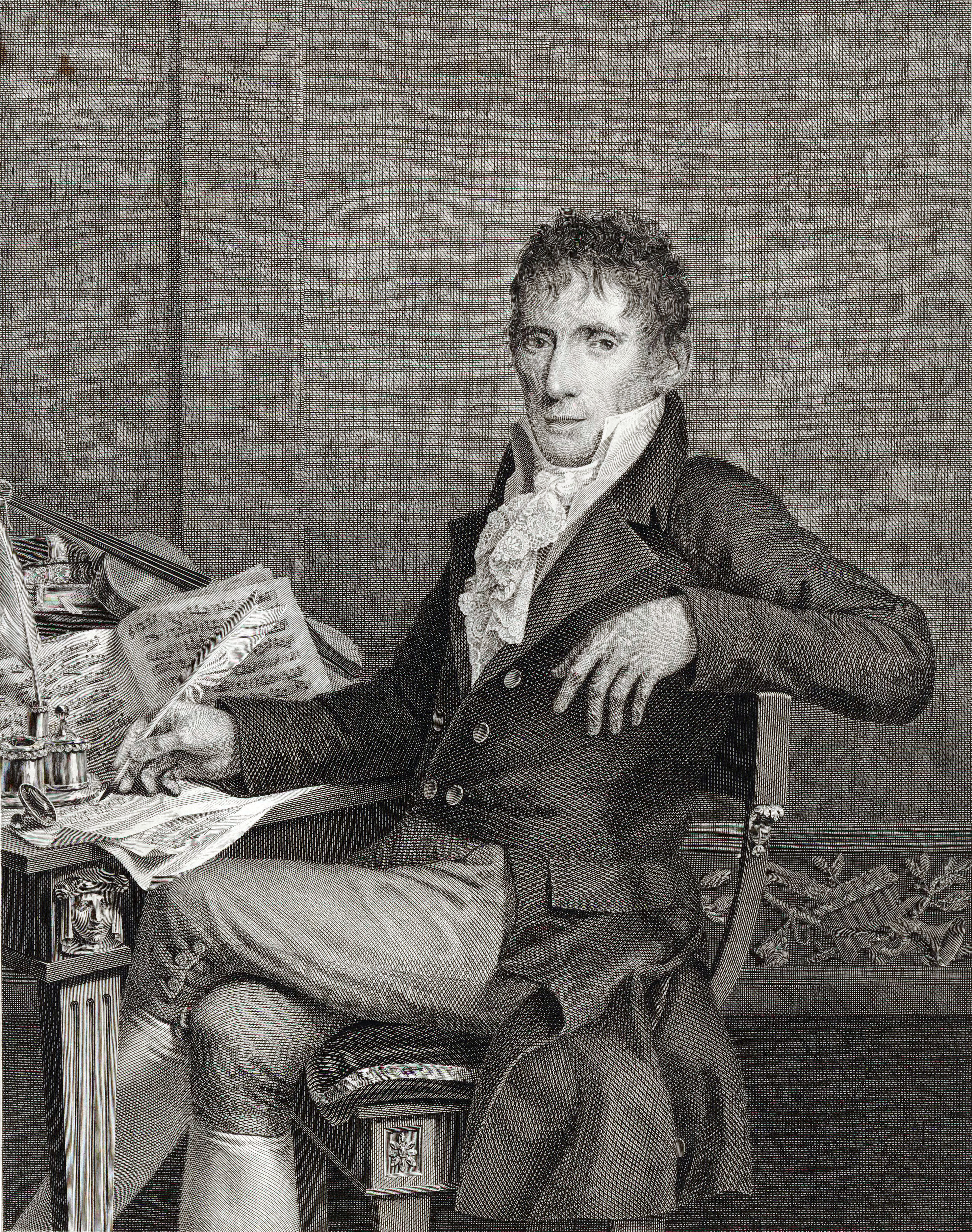 Depicted person: Alessandro Rolla